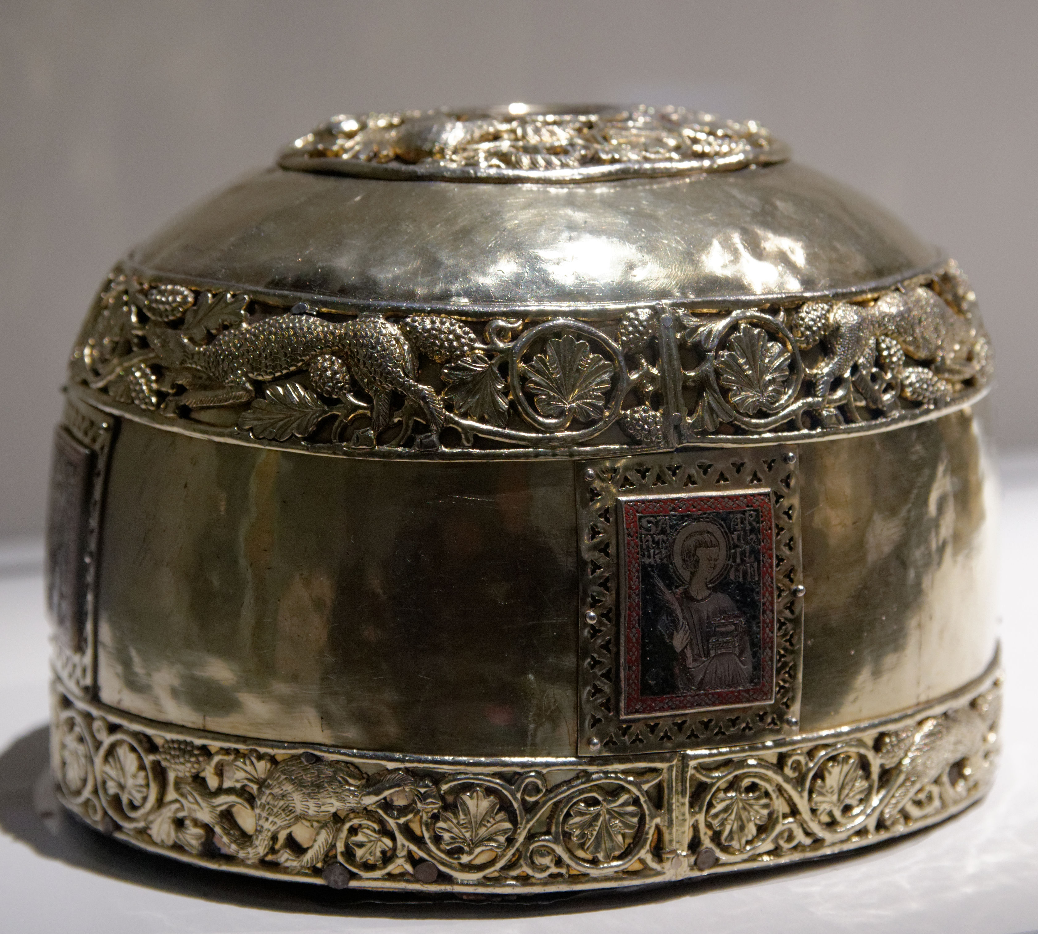 Head reliquary in the shape of a skull-cap with relics of St Blaise, St Achilleus, St Stephen, and St Nereus.